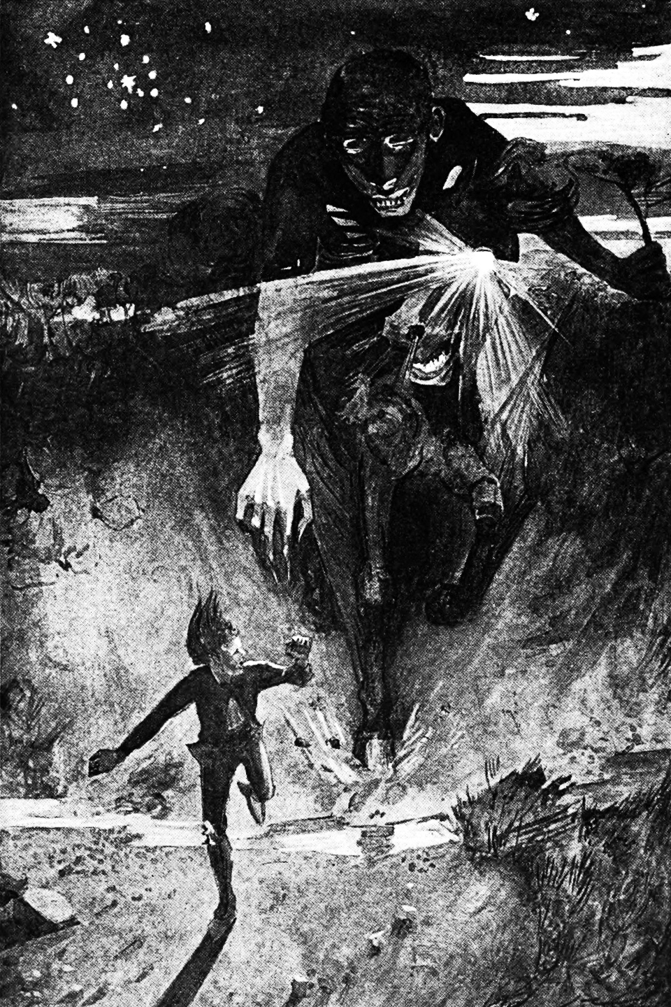 Scottish fairy tale "Nuckelavee". Caption: Tammie felt the wind of nuckelavee's clutches